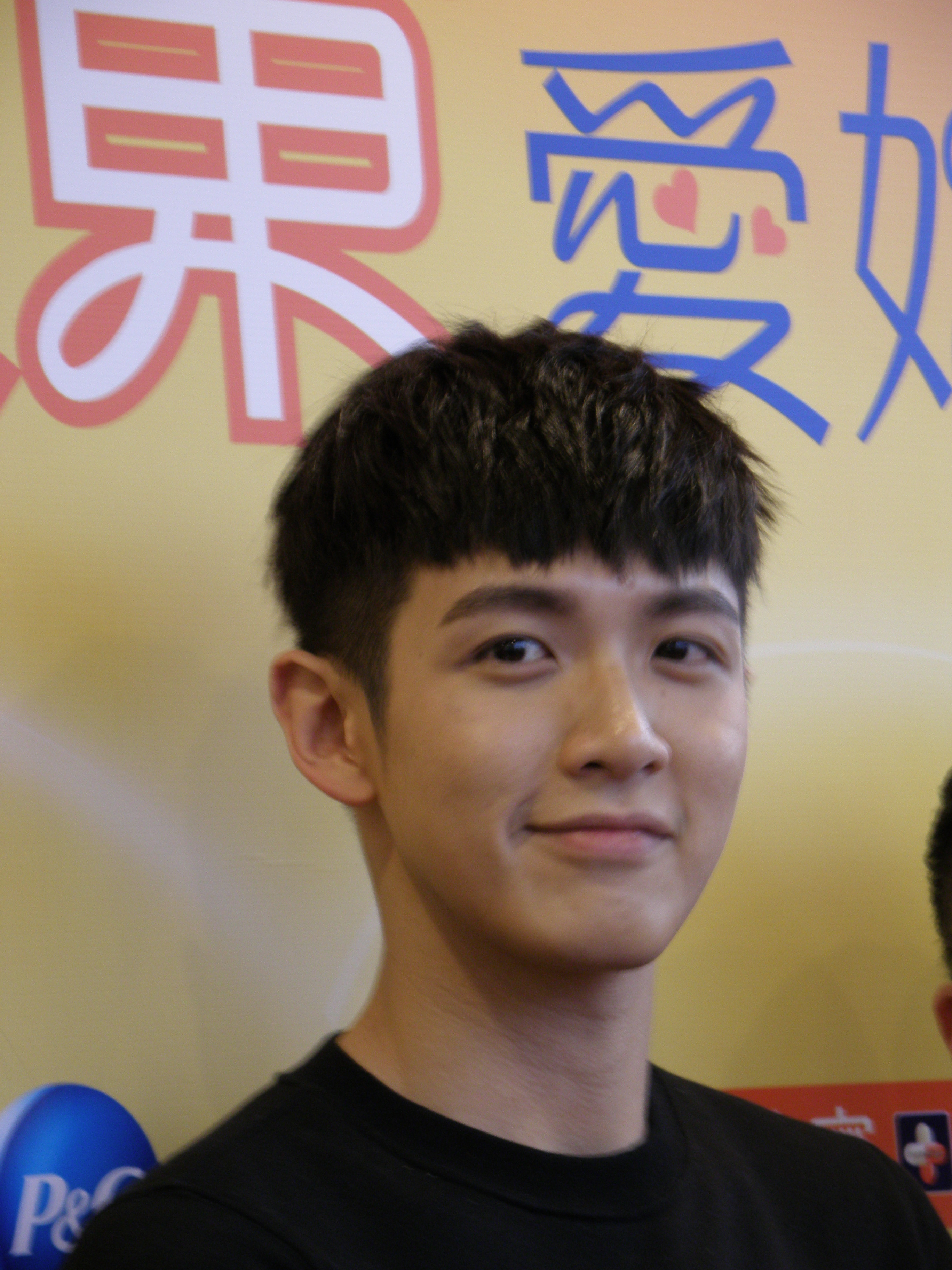 Ko Chen-tung, Taiwanese actor and singer, attended a consumer goods promotion activity in Hong Kong.